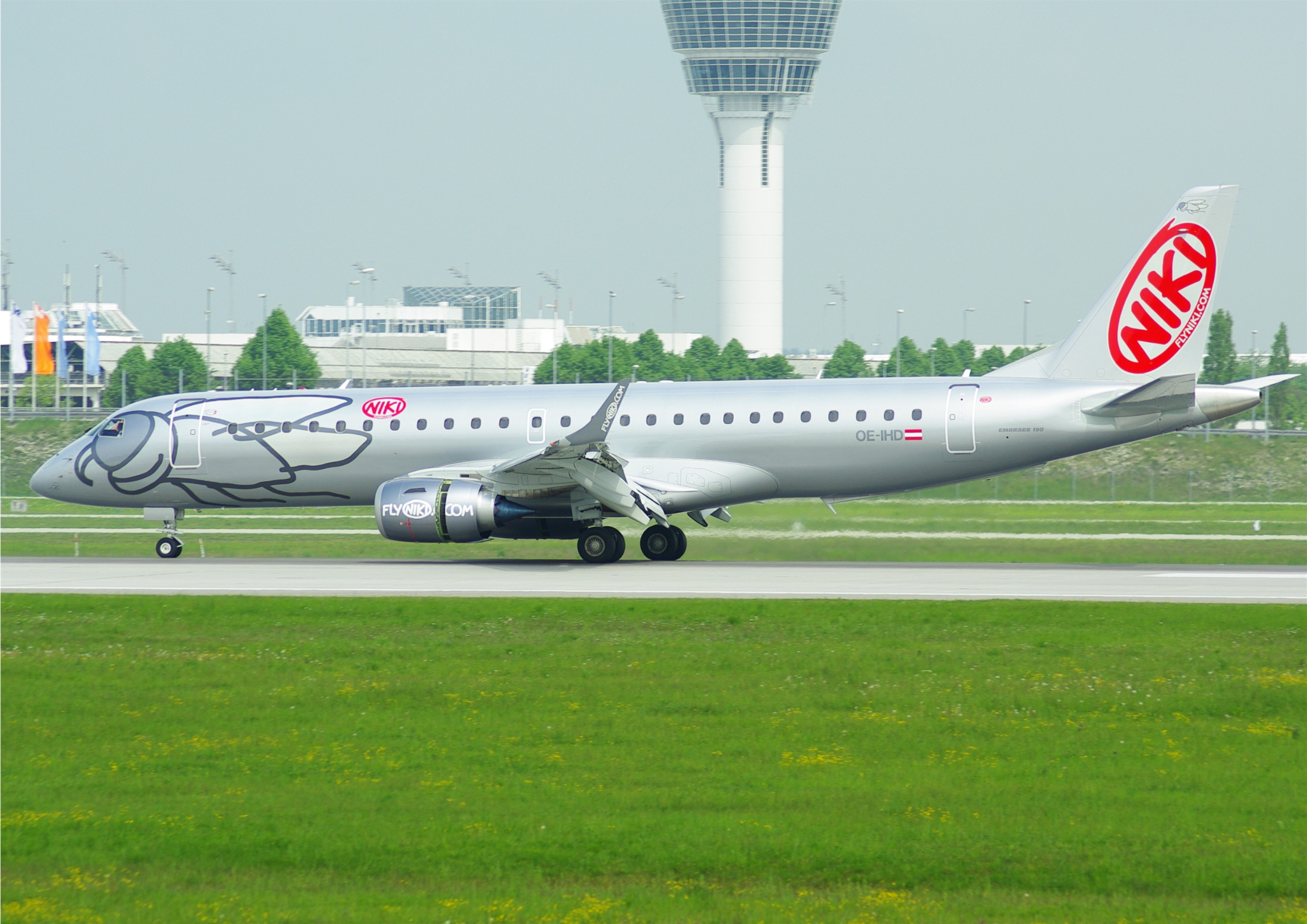 ferry from VIE for charter to MAD